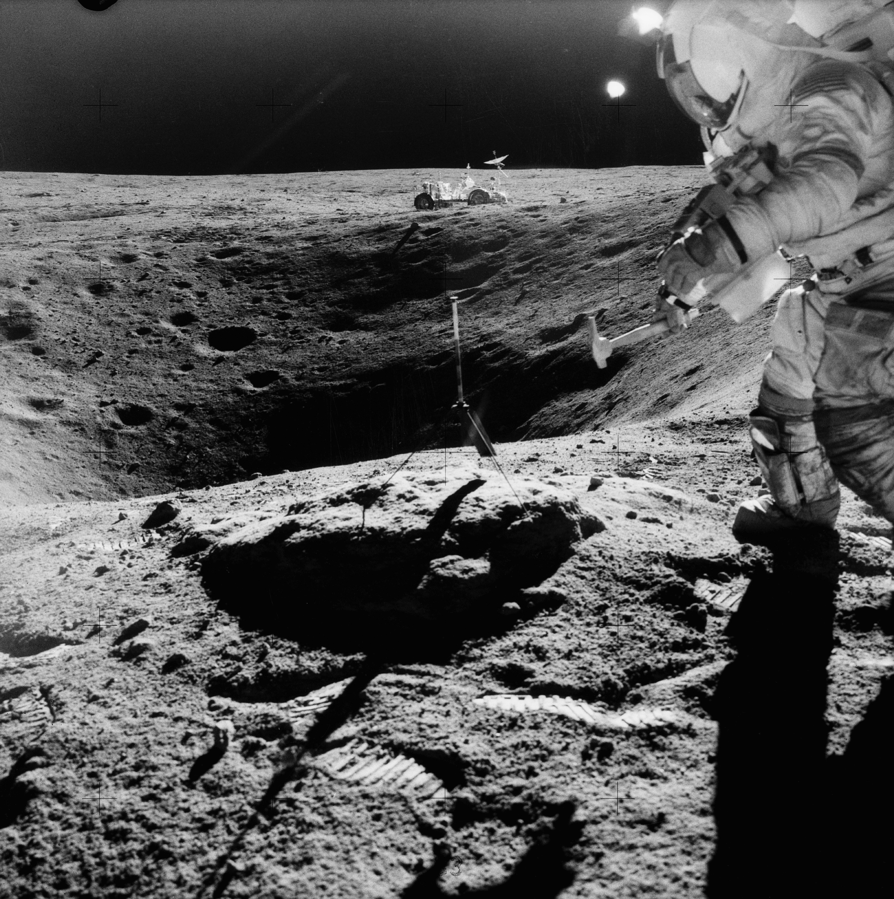 AS16-109-17804 (21 April 1972) --- Astronaut John W. Young, commander of the Apollo 16 lunar landing mission, stands on the rim of Plum Crater while collecting lunar samples at Station 1 during the first Apollo 16 extravehicular activity (EVA-1) at the Descartes landing site. This scene, looking eastward, was photographed by astronaut Charles M. Duke Jr., lunar module pilot. The small boulder in the center foreground was chip sampled by the crew. Plum Crater is 40 meters in diameter and 10 meters deep (1 meter equals 39.37 inches). The Lunar Roving Vehicle (LRV) is parked on the far rim of the crater. The gnomon, which is used as a photographic reference to establish local vertical Sun angle, scale, and lunar color, is deployed in the center of the picture. Young holds a geological hammer in his right hand.